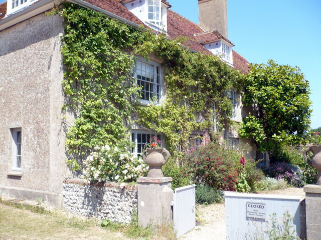 Charleston, East Sussex Home of Duncan Grant,Vanessa Bell and Clive Bell and later of Vanessa's children by Duncan Grant and Clive Bell. It became a meeting place for artists, writers and intellectuals who became known as the Bloomsbury set. Included in the group were Vanessa's sister, Virginia Woolf, Leonard Woolf and many others.